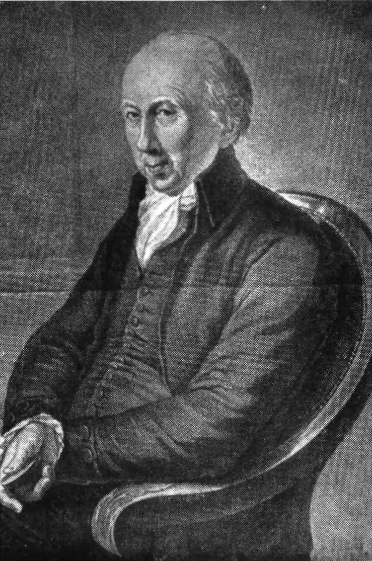 Portrait of Johann Arnold von Clermont (1728-1795), entrepreneur in Aachen and Vaals (late 18th century engraving by unknown artist).